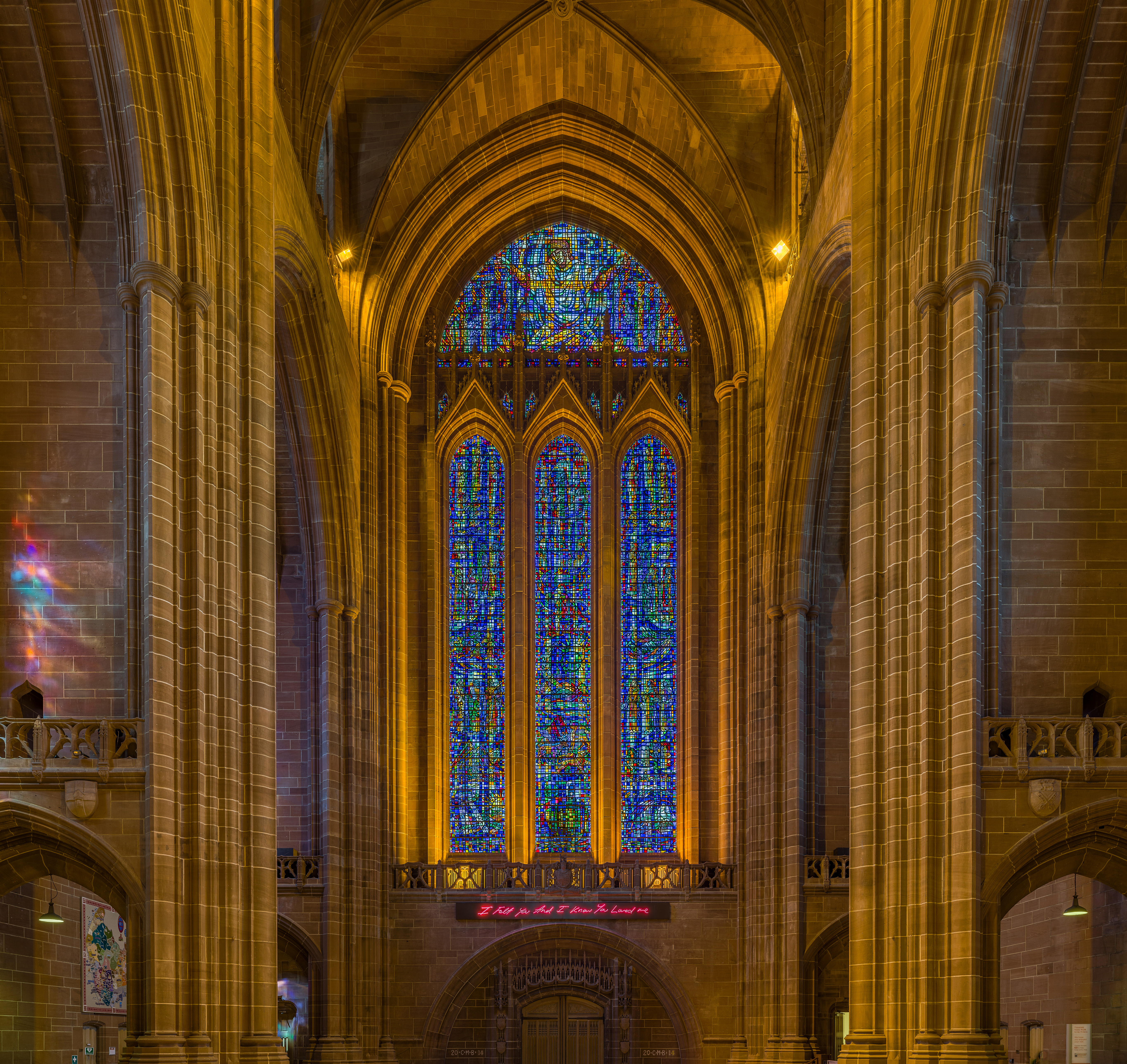 The west window of Liverpool Anglican Cathedral in Liverpool, England.